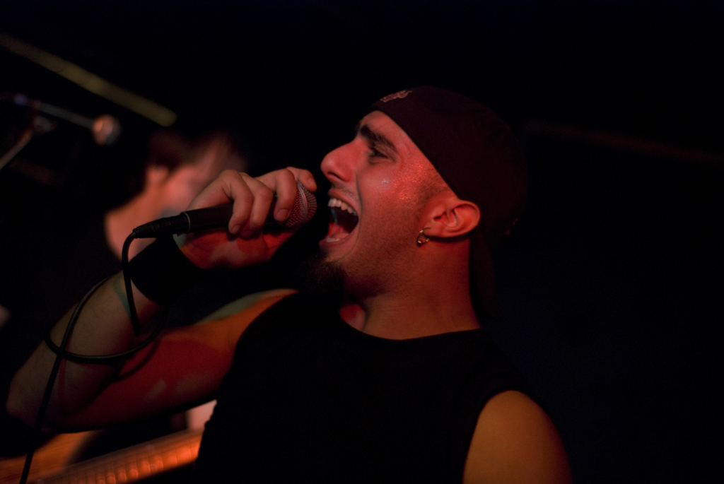 Licensed under Creative Commons Attribution-Share Alike. Feel free to use it anywhere but put a link to my website or flickr page.